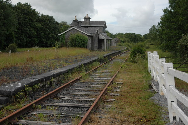 Disused Railway Station, Adare